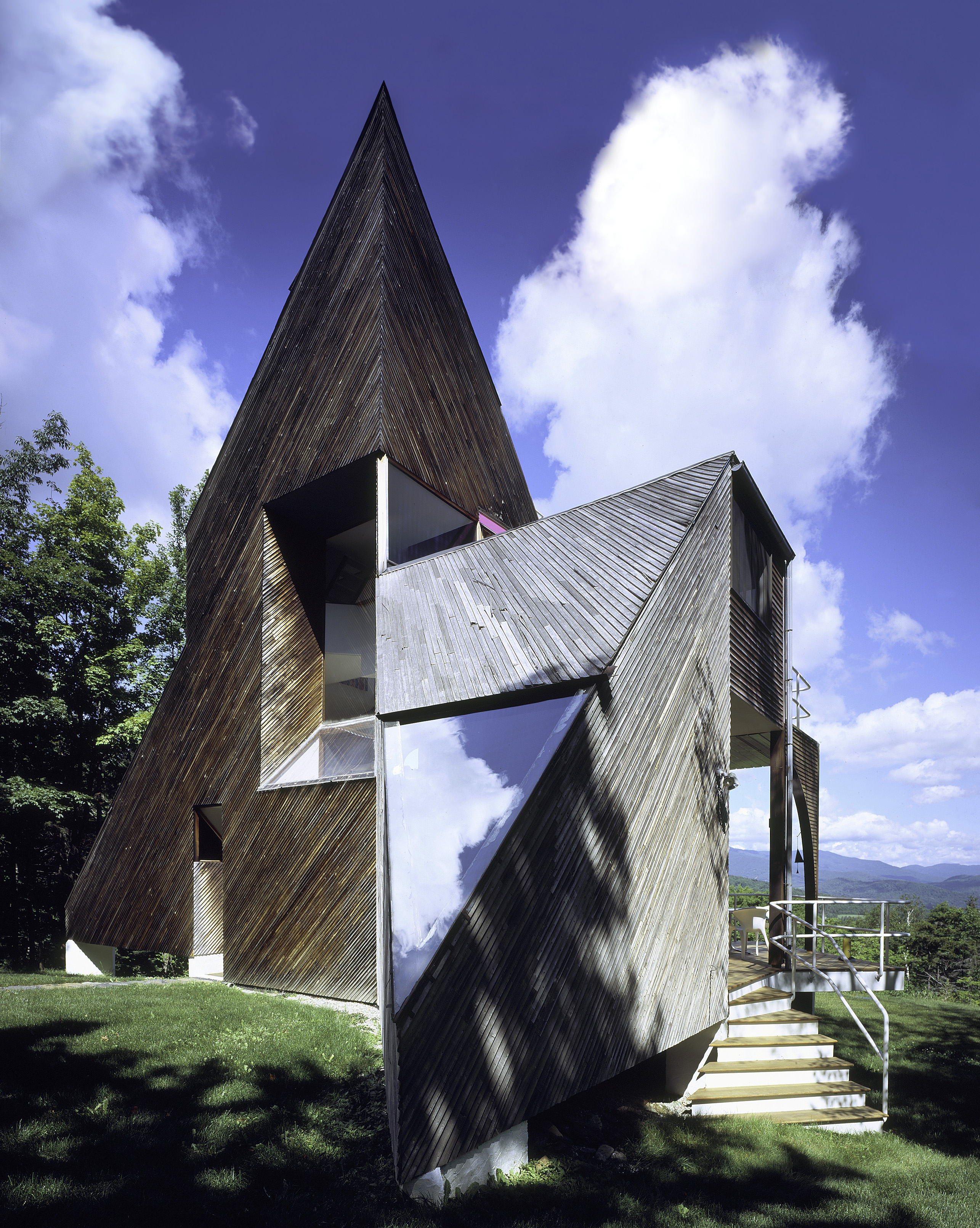 Sibley/Pyramid House, Warren, Vermont, built 1967 (William Reineke and David Sellers)